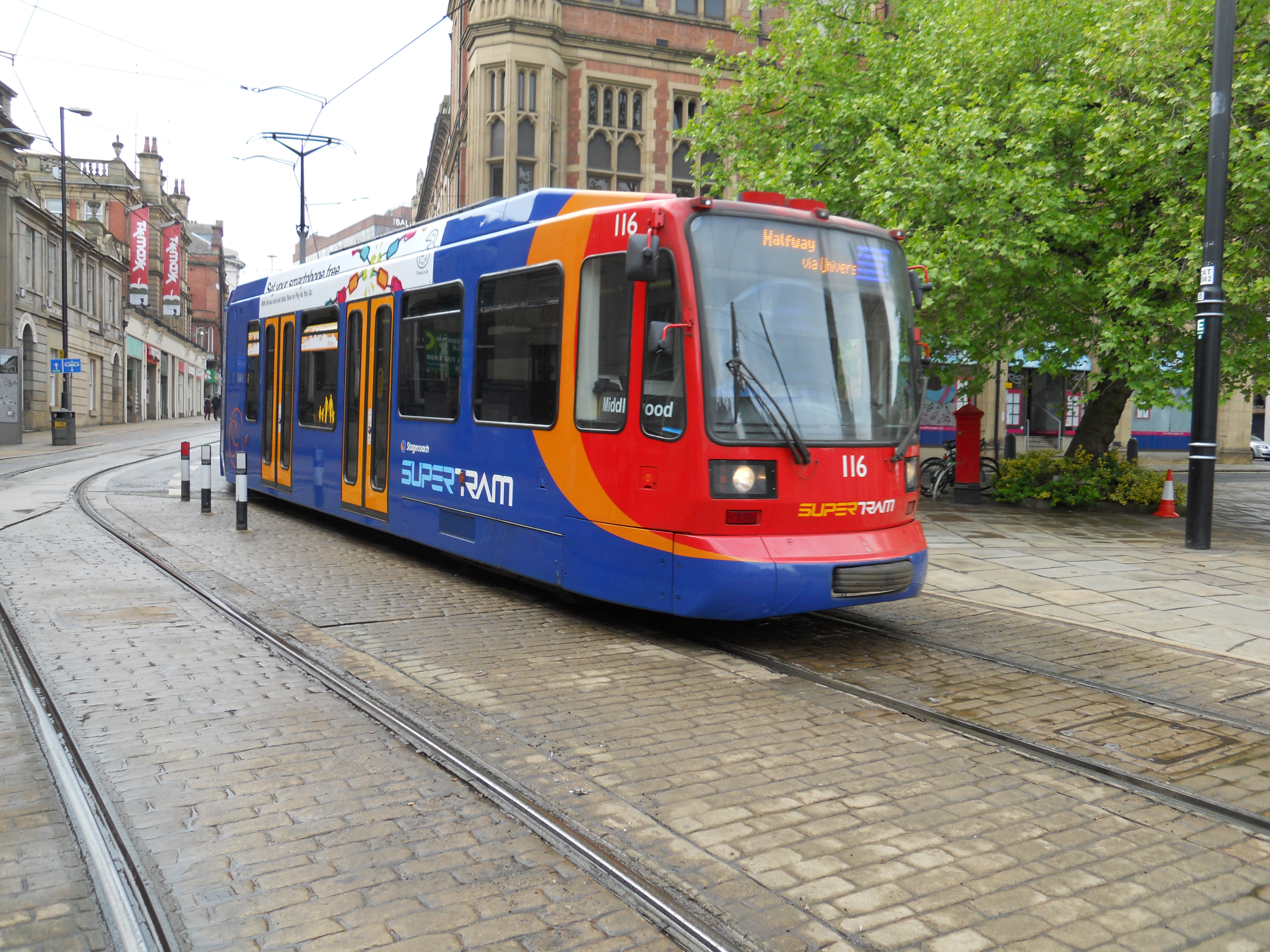 Taken on Saturday 7th May approaching Cathedral Station